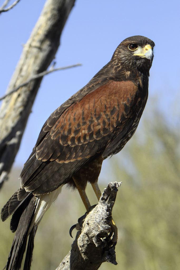 The Harris's Hawk (Parabuteo unicinctus) is famous for its remarkable behavior of hunting cooperatively in packs, consisting of family groups. Most raptors are solitary hunters